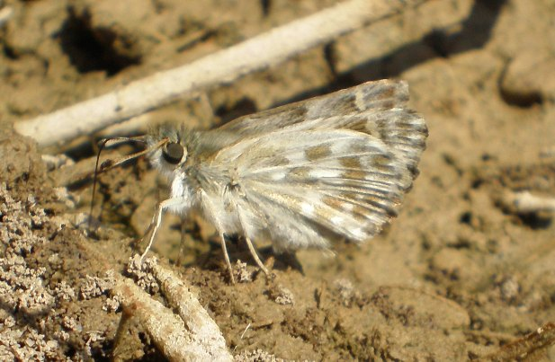 Near Tàrrega, Lleida, Catalonia.